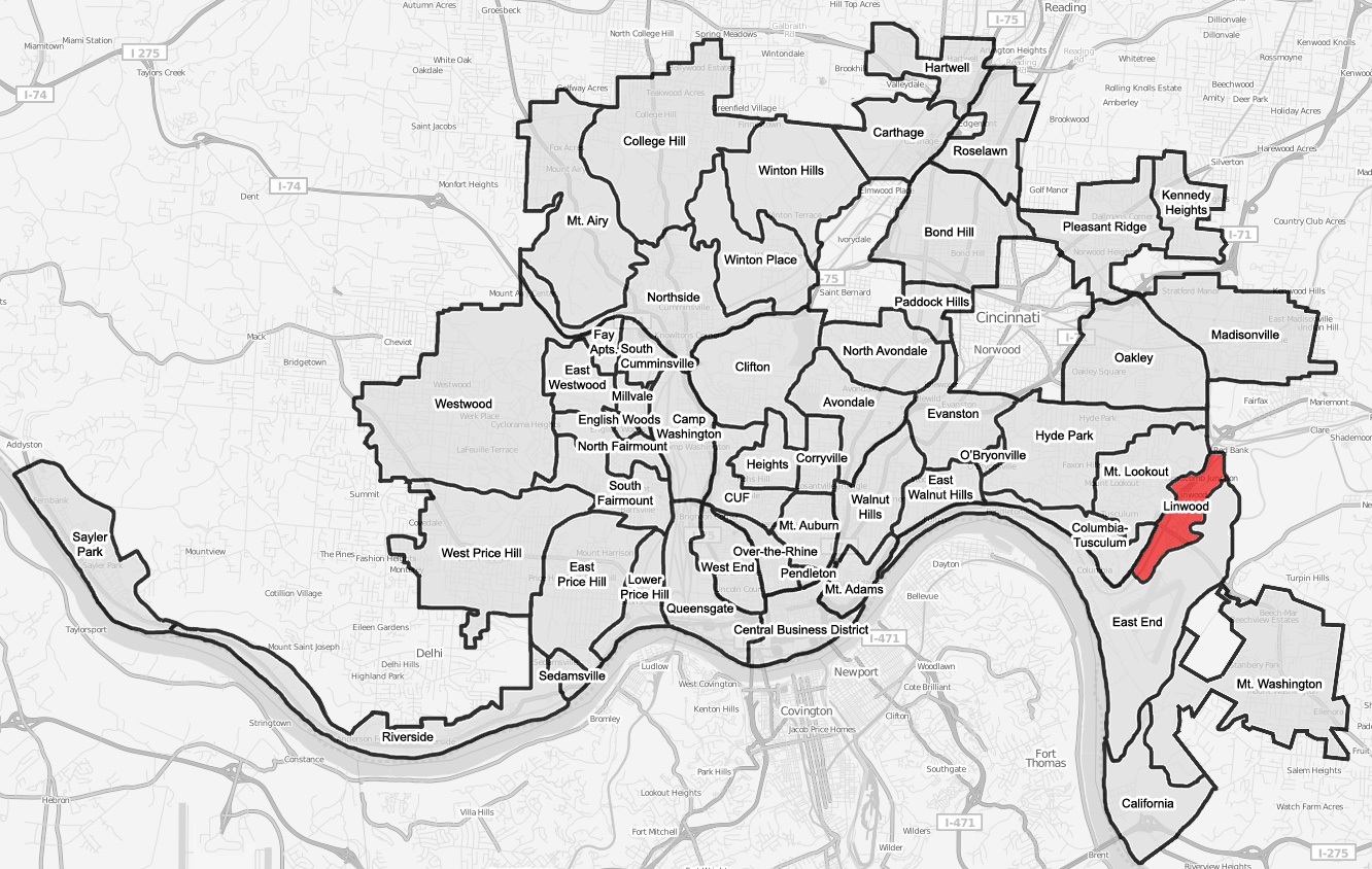 A map of the neighborhood of Linwood within Cincinnati, Ohio. Neighborhood lines are based on information from This street map is derived from a free map.